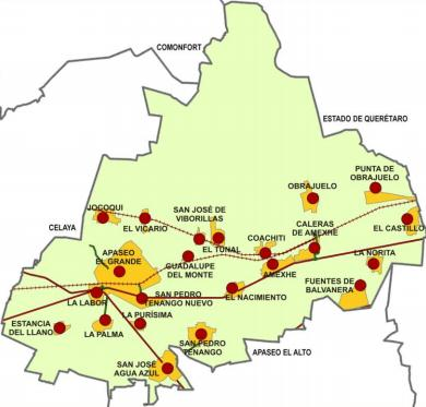 Localidades de Apaseo el Grande